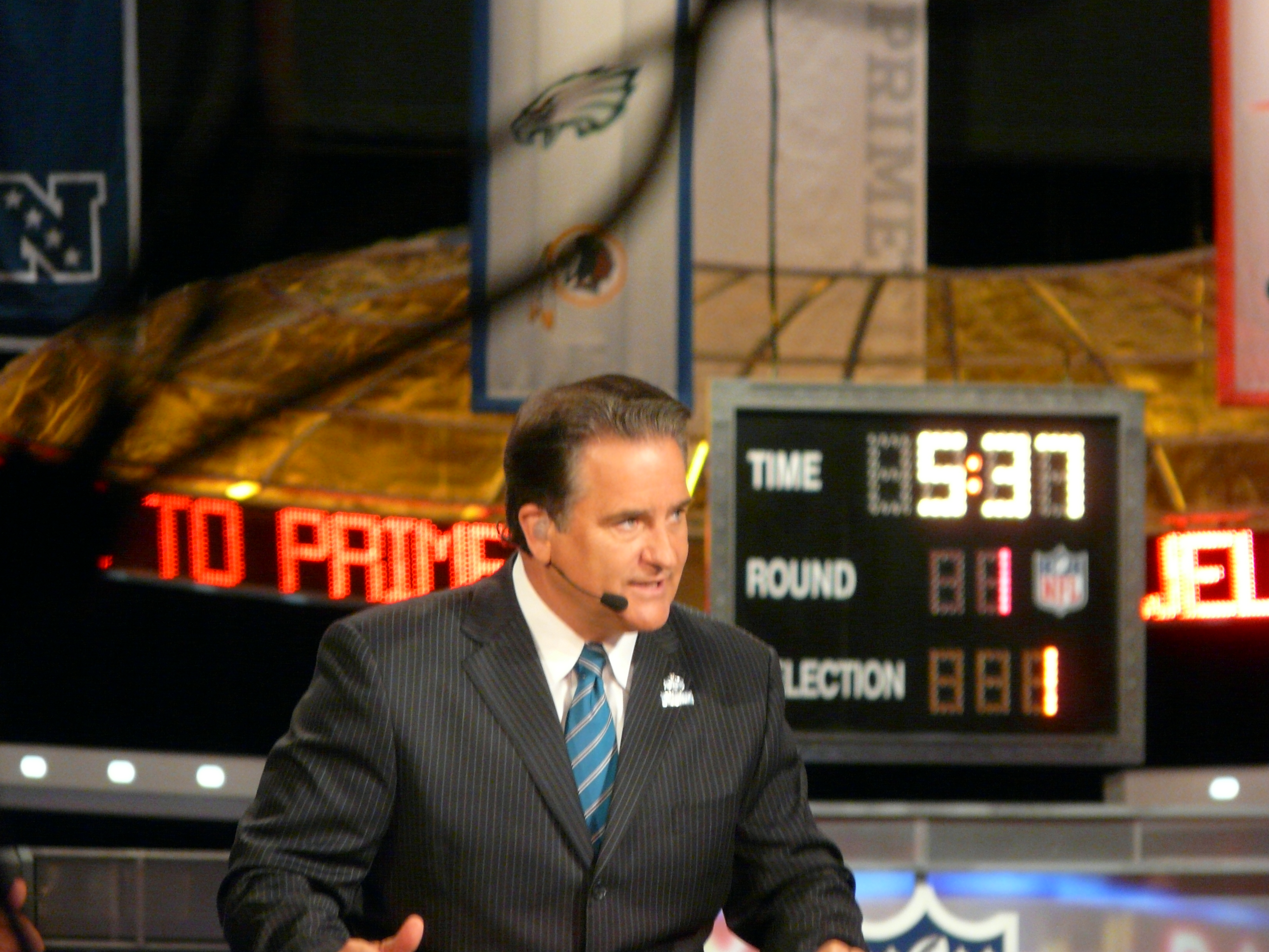 Steve Mariucci at the 2011 NFL Draft.